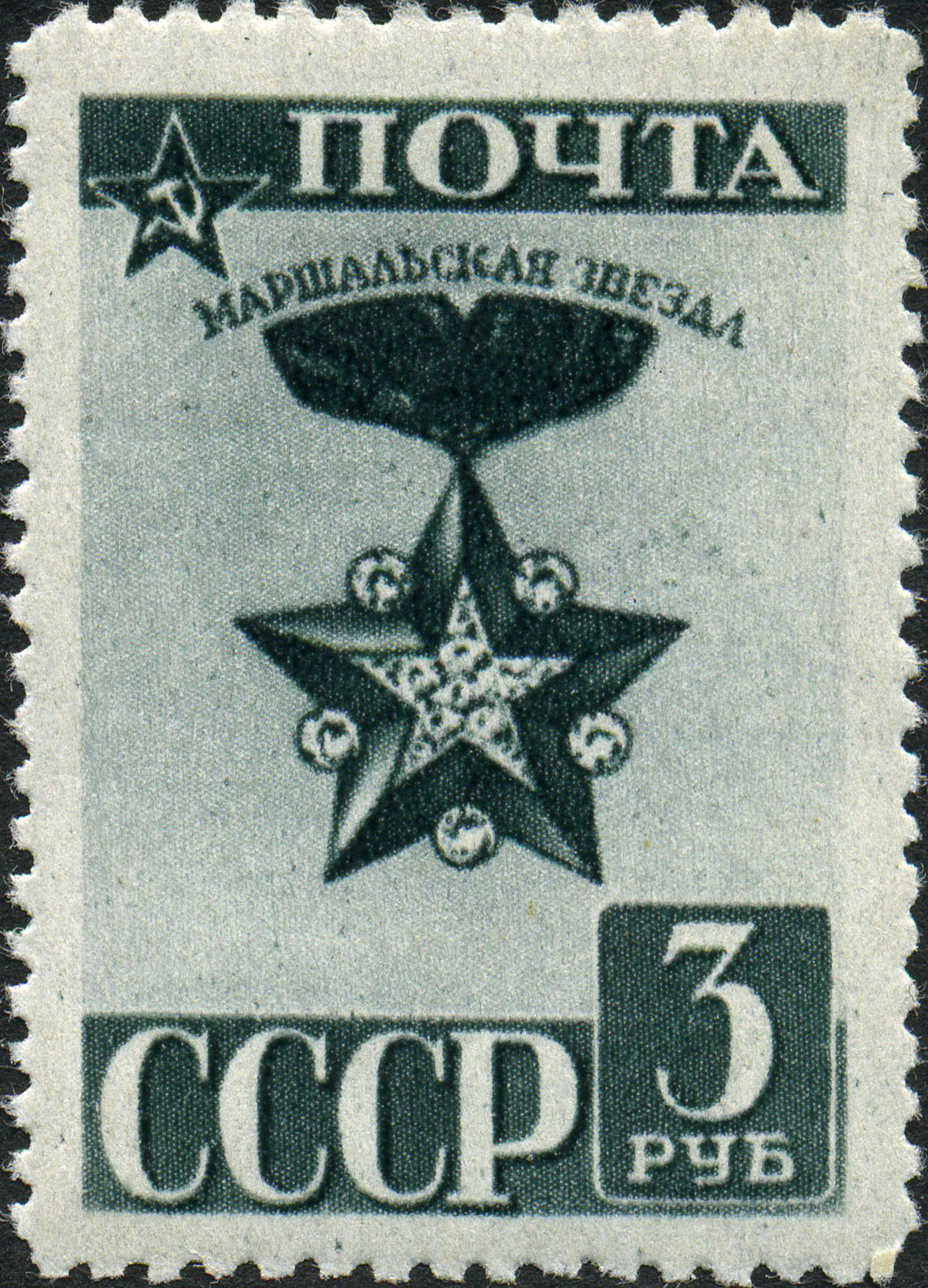 A USSR stamp, Awards of the Soviet Union